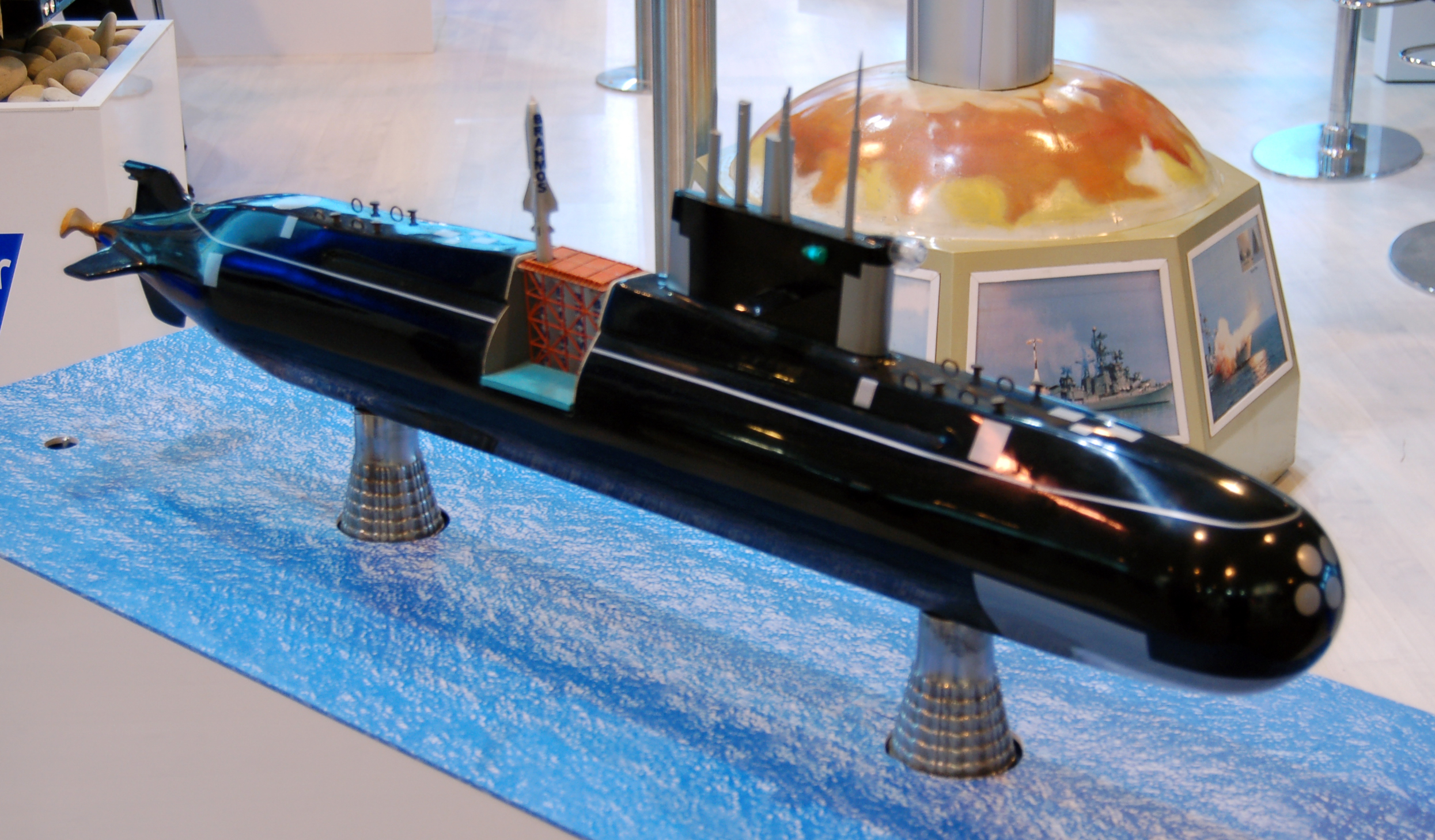 BrahMos missiles on Lada class non-nuclear submarine maquette. MAKS-2009